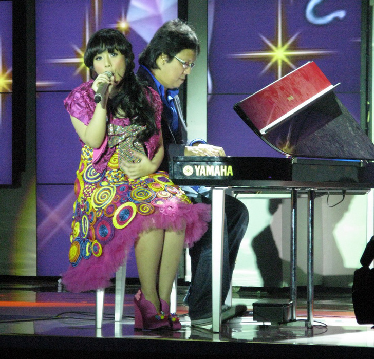 Father/Daughter Erwin and Gita Gutawa on stage during the Kotak Musik Gita Gutawa Concert